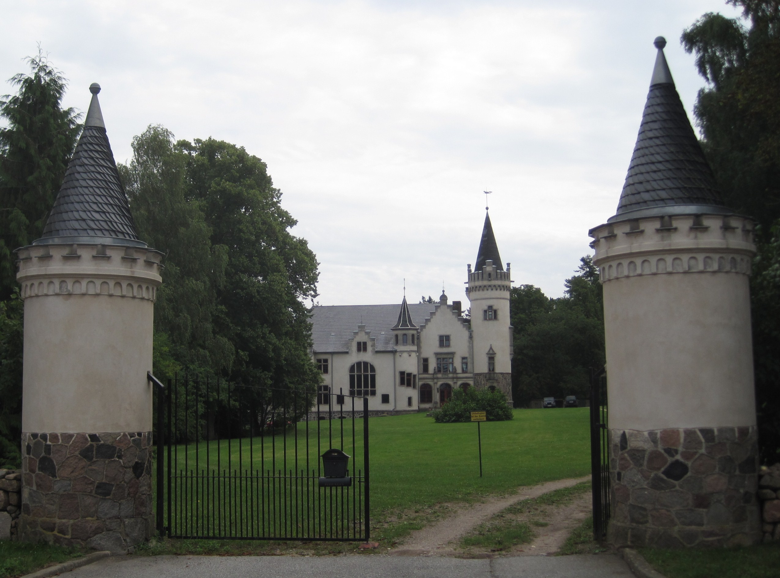 Manorhouse in Katelbogen in Baumgarten municipality in the Güstrow district of Mecklenburg.